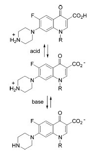 Amphoteric character of quinolones